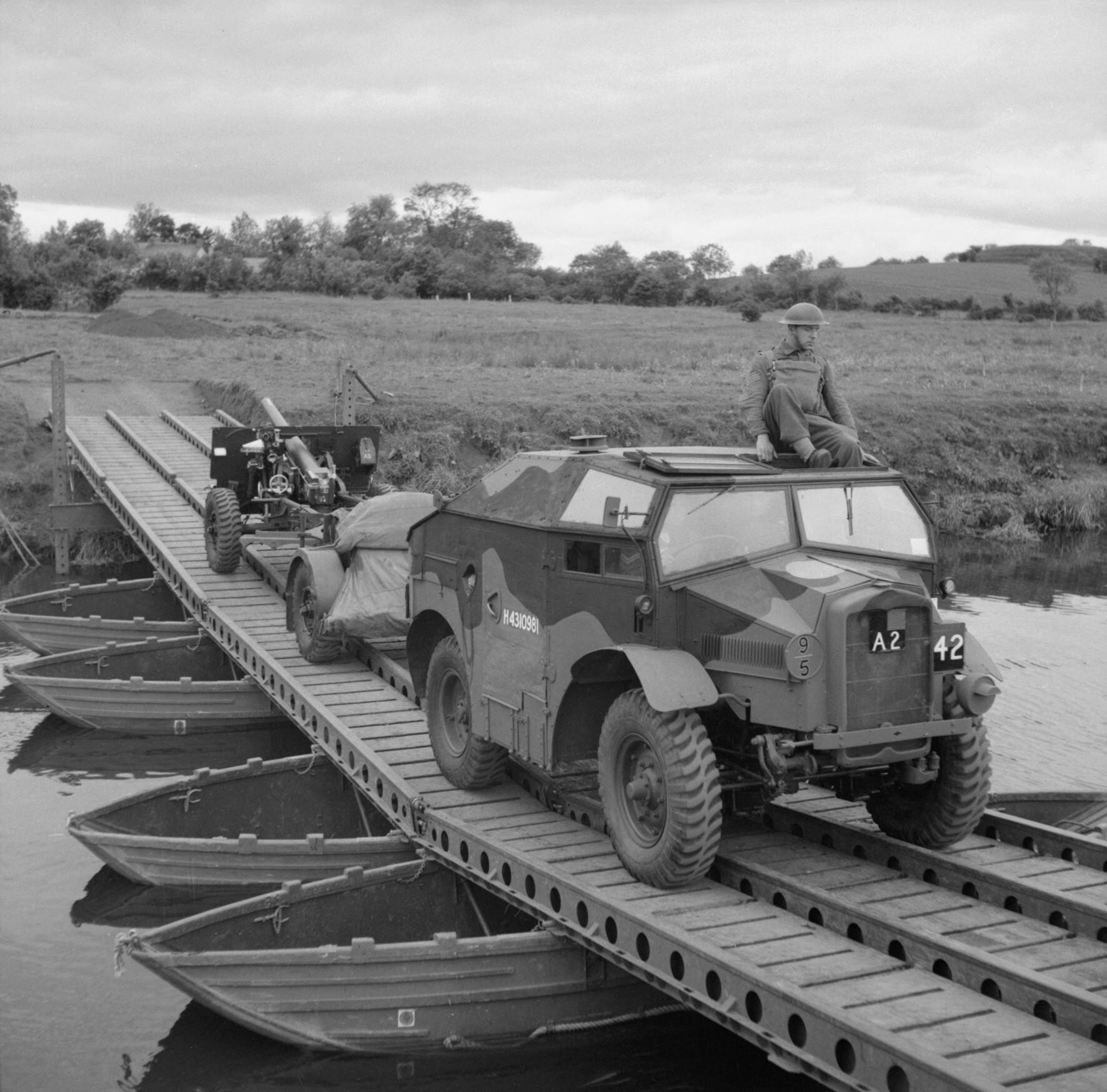 The British Army in the United Kingdom 1939-45 Morris-Commercial C8 'Quad' artillery tractor and 25-pdr field gun crossing a pontoon bridge at Slaght Bridge in Antrim, Northern Ireland, 26 June 1942.